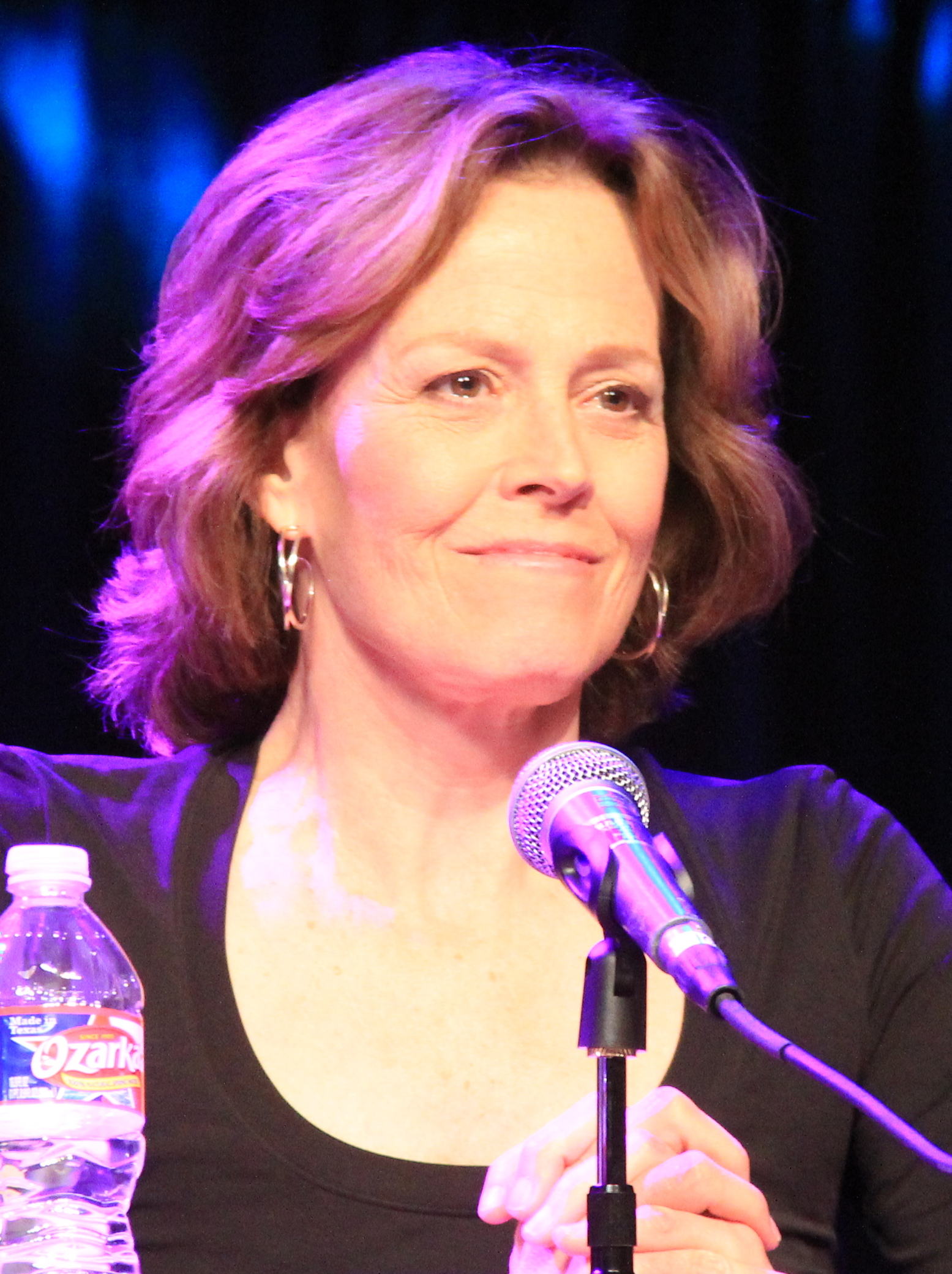 Aliens 30th Anniversary Panel at Comicpalooza - Sigourney Weaver